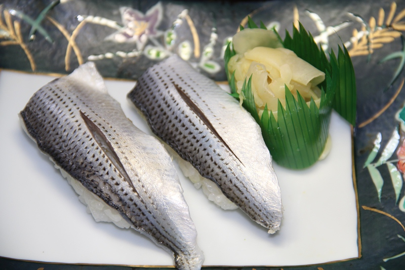 Kohada nigirizushi, sushi, Dorosoma